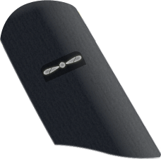 RAF Leading Aircraftman